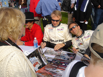 Hal Prewitt signing autographs with Richard Petty and David Murry during the 2007 24 Hours of Daytona Race